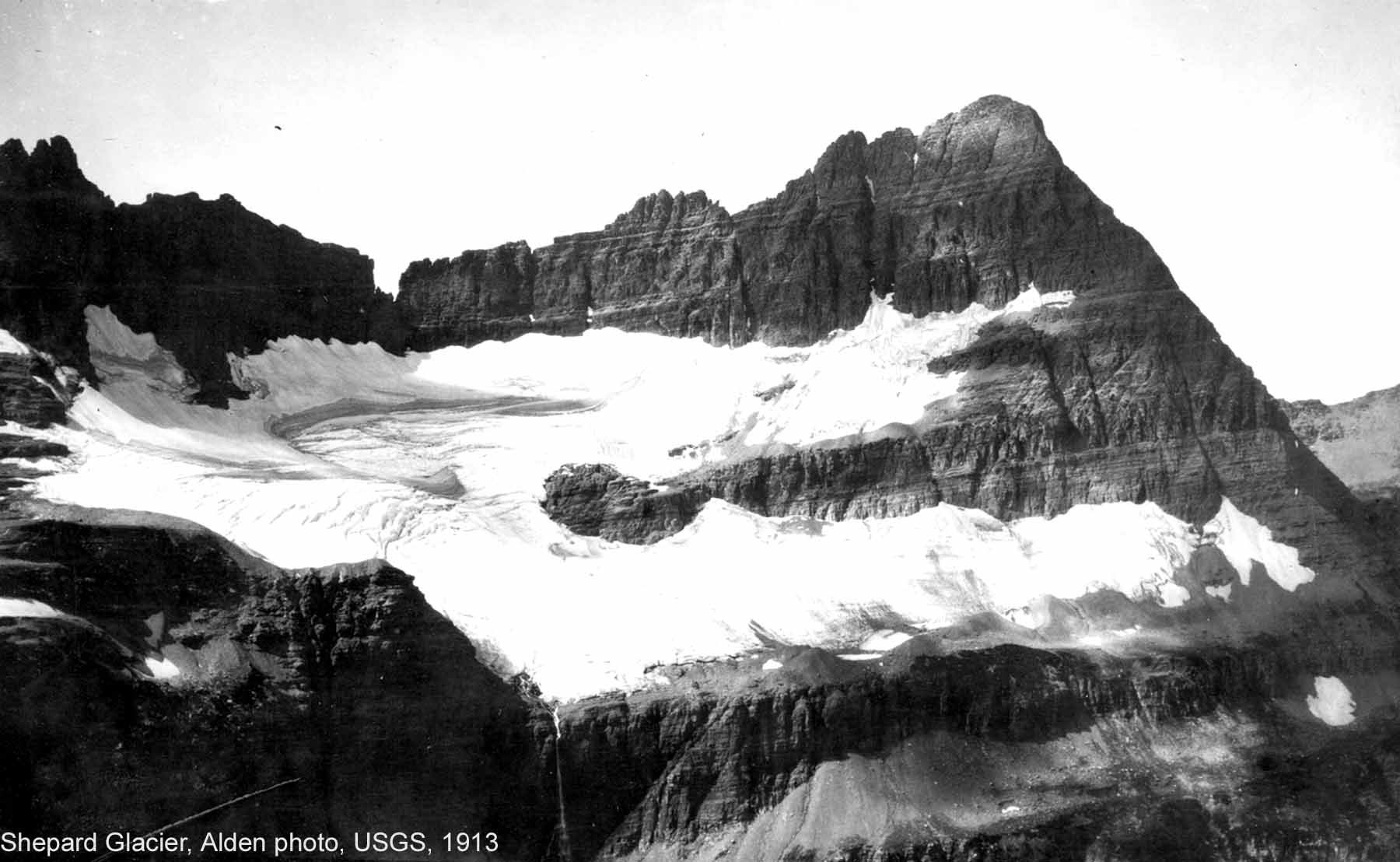 Shepard Glacier located in Glacier National Park, Montana, USA as photographed in 1913